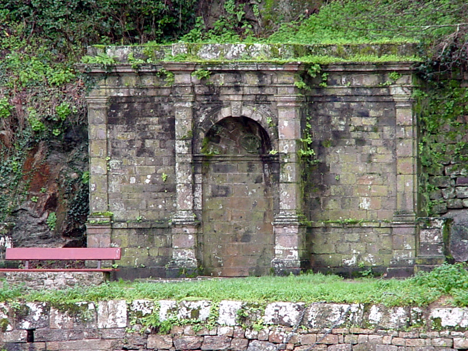 Chazelle fountain, 1821, near River of Auray, Auray, Britain, Morbihan, France